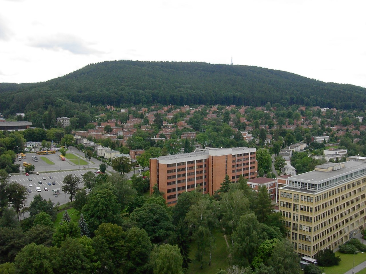 View from Building 21, Zlín.